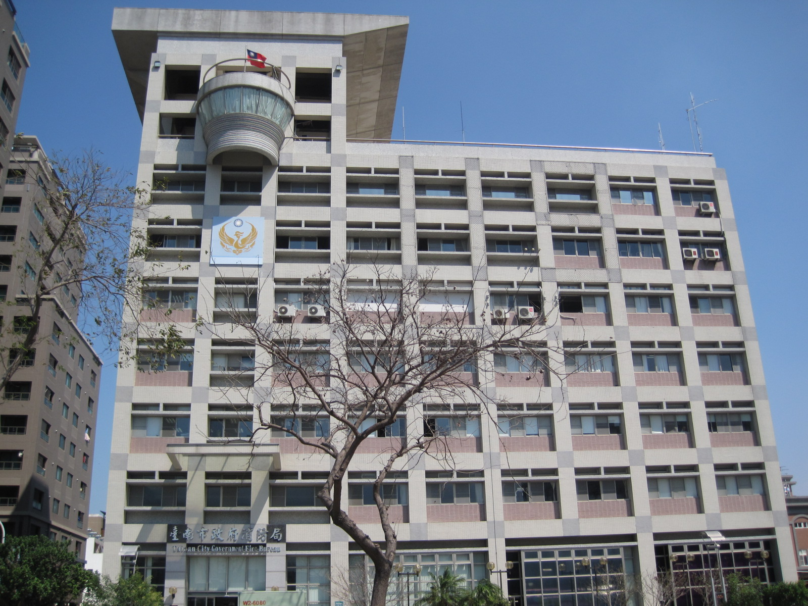 Tainan City Government Fire Bureau中文（台灣）: 臺南市政府消防局大樓。